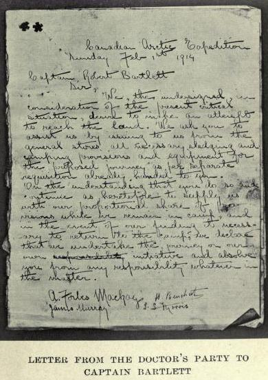 Letter dated 1 February 1914, signed by Alistair Forbes Mackay and three others, notifing Captain Bartlett of their intention to march to the land, after the ship HMCS Karluk was crushed in the Arctic ice.